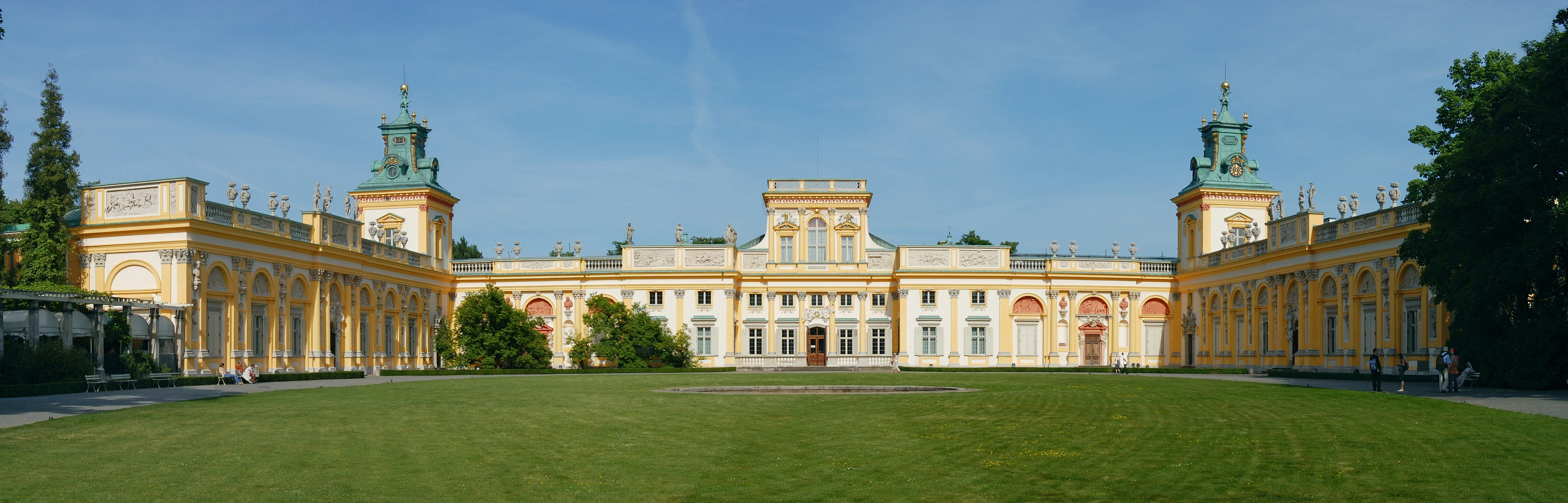 Wilanów Palace, Warsaw, Poland.